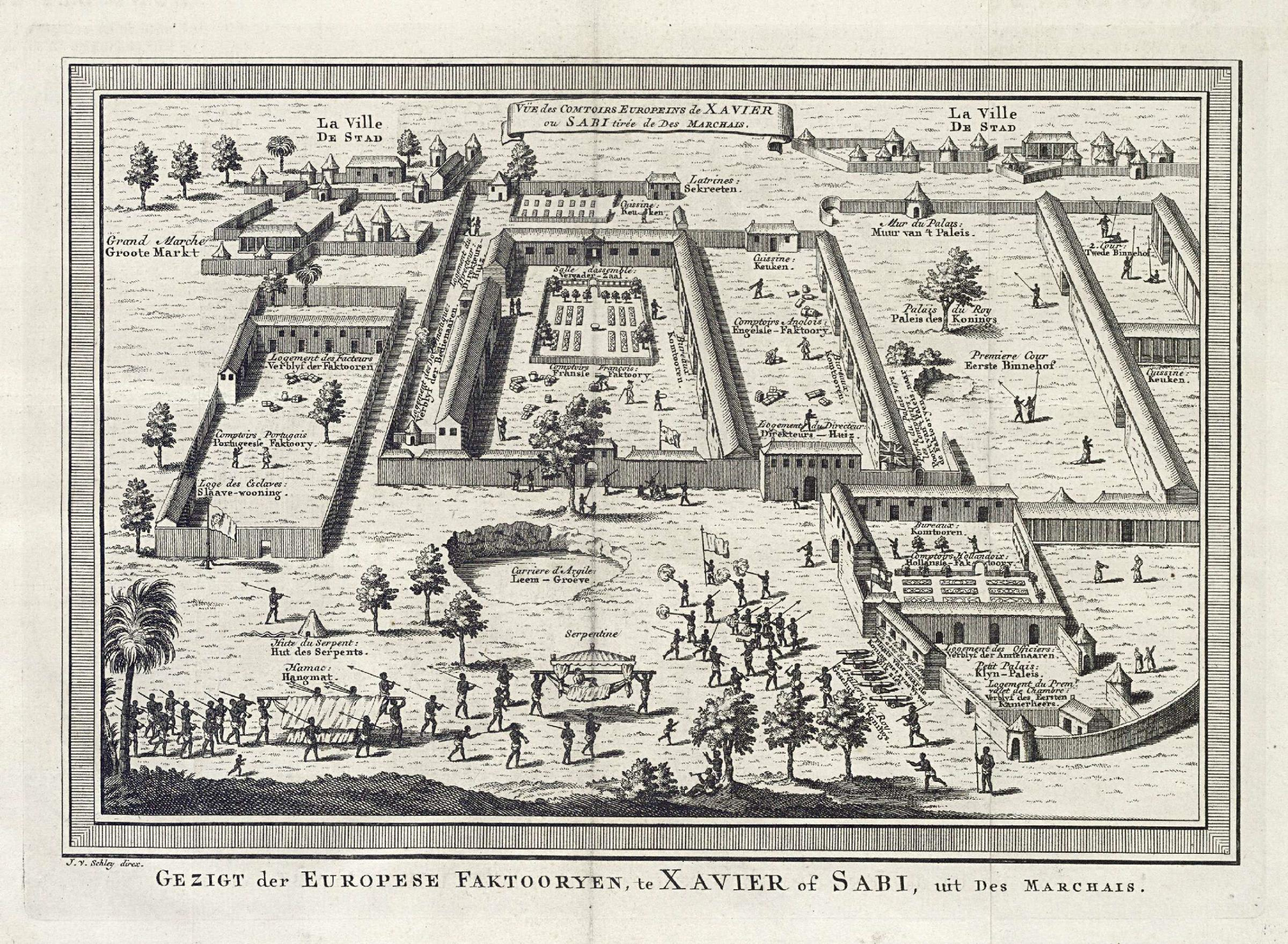 Bird's eye view of the European trading posts at Sabi. Gezigt der Europese Faktooryen, te Xavier of Sabi, uit Des Marchais. Vüe des Comtoirs Europeins de Xavier ou Sabi tirée de Des Marchais. In the foreground right the WIC trading post is shown. Portugese, French and English trading posts are shown as well. Cf. Koninklijke Bibliotheek, The Hague, inv. nr. 3032 B 12, prior to p. 64.